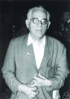 Mathematician Louis Mordell in Nizza, 1970.